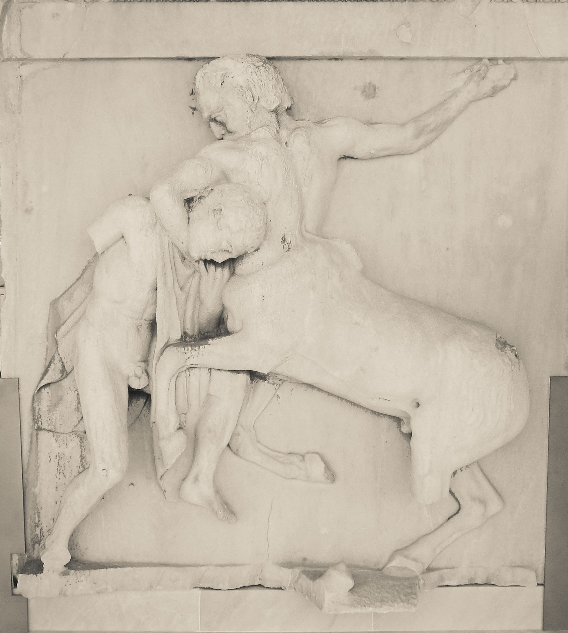 Metope 1 South, Centauromachy, Parthenon, Athens, Greece